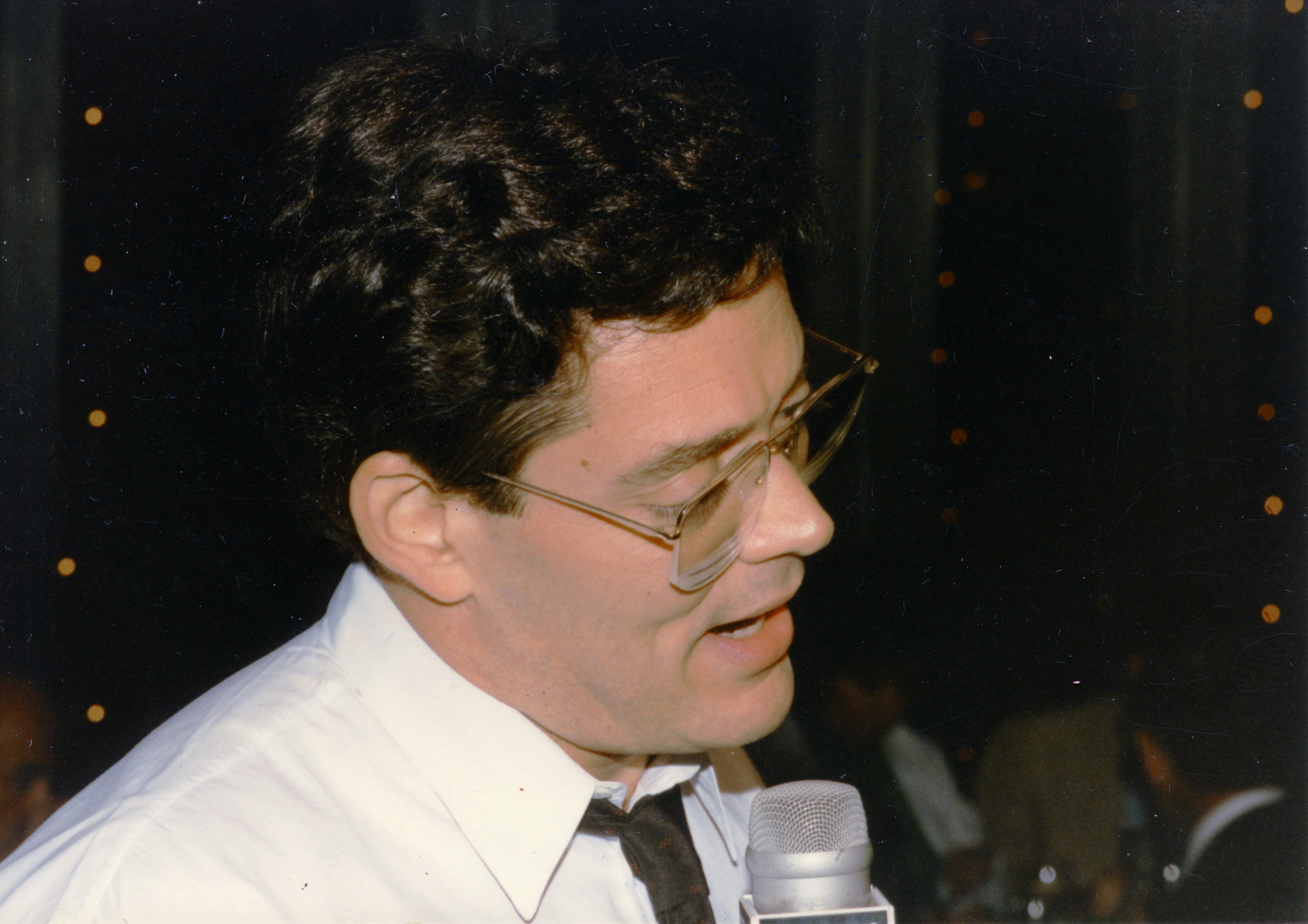 Raul Julia being interviewed on opening night 1984 at cast party at Circle in the Square 1984 Noel Coward's "Design for Living"